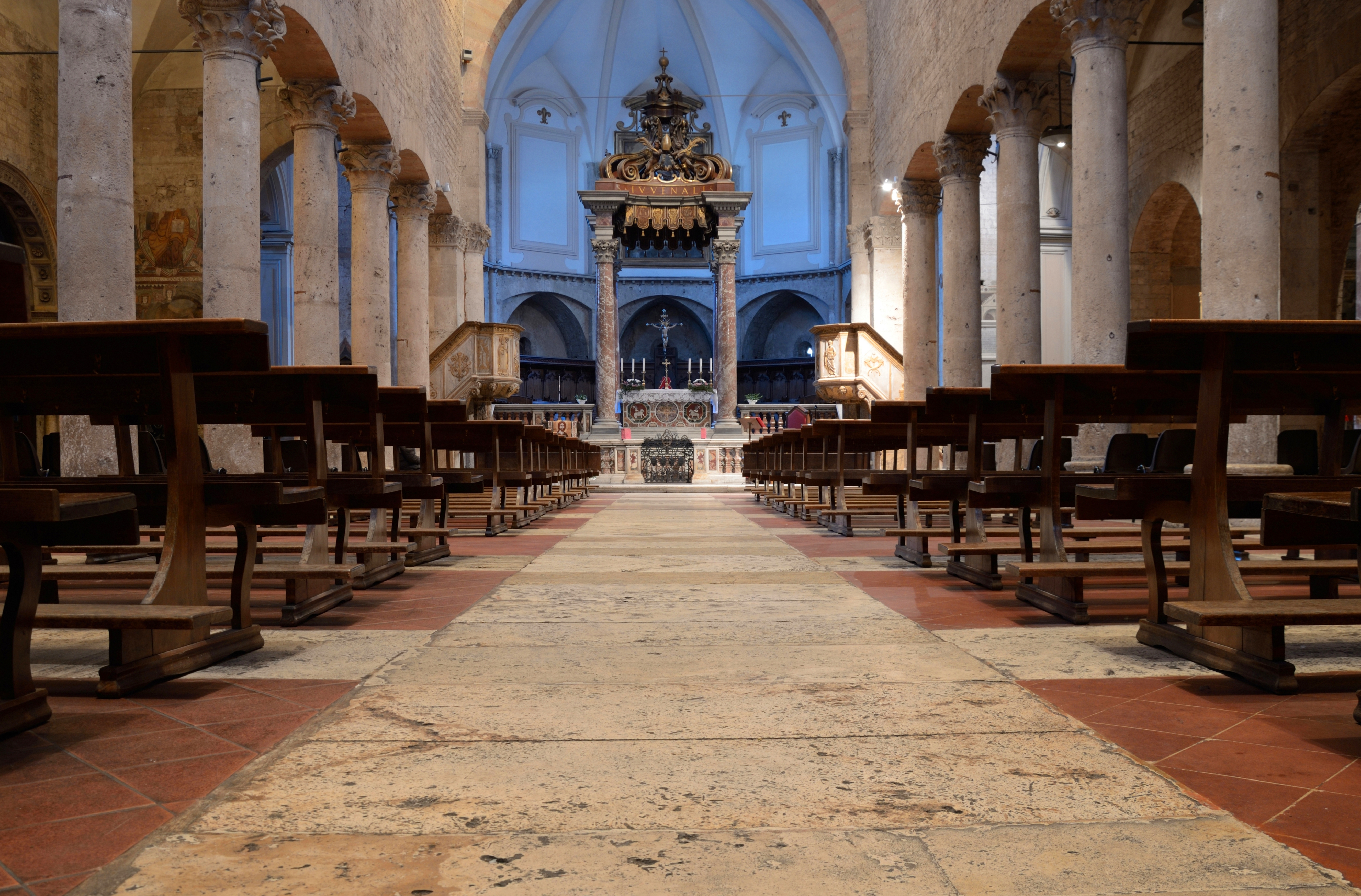 Interior of the concathedral of San Giovenale in Narni, Umbria, Italy.